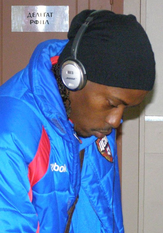 Chidi Odiah as a player of PFC CSKA Moscow